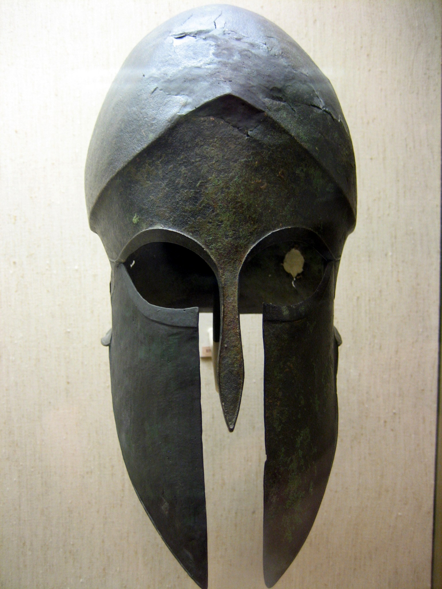 Ancient Greek helmet(Detailed information was lost by the photographer)